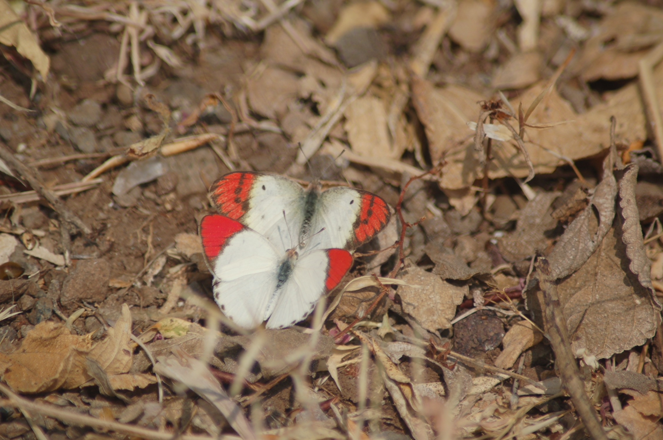 Crimson Tip Courting